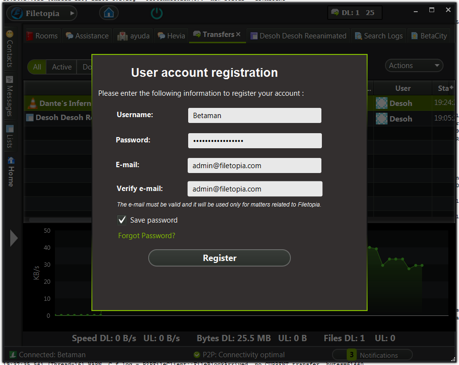 Registration screeen